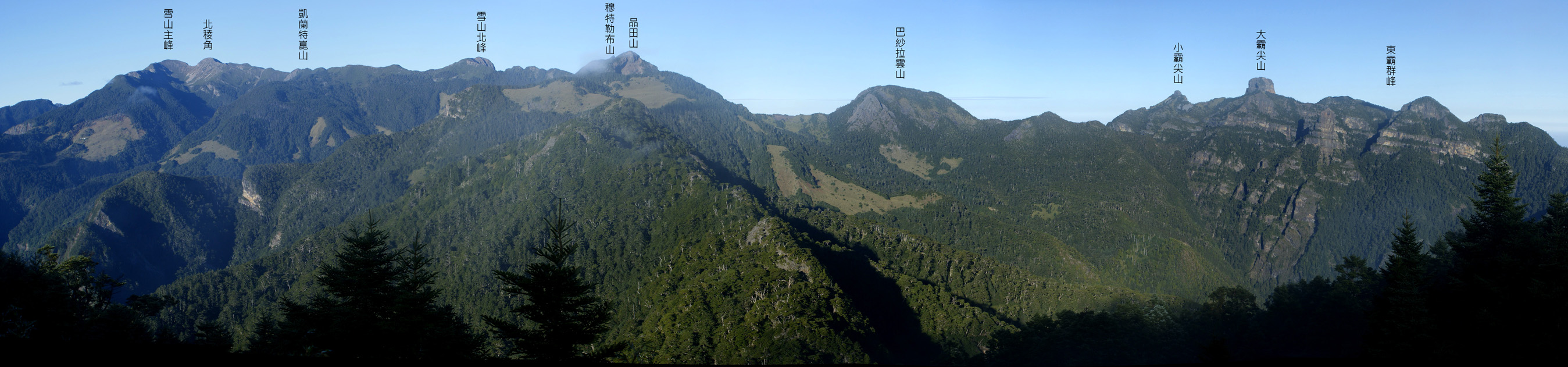 Holy ridgeline